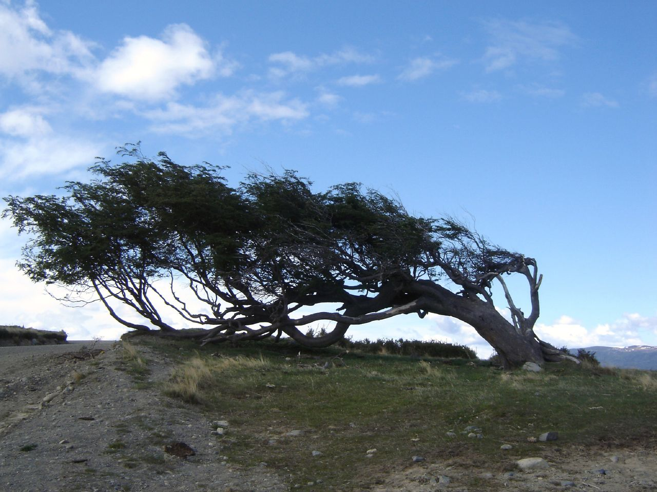 Windswept Nothofagus antarctica tree, Ushuaia, Tierra del Fuego, Patagonia, Argentina